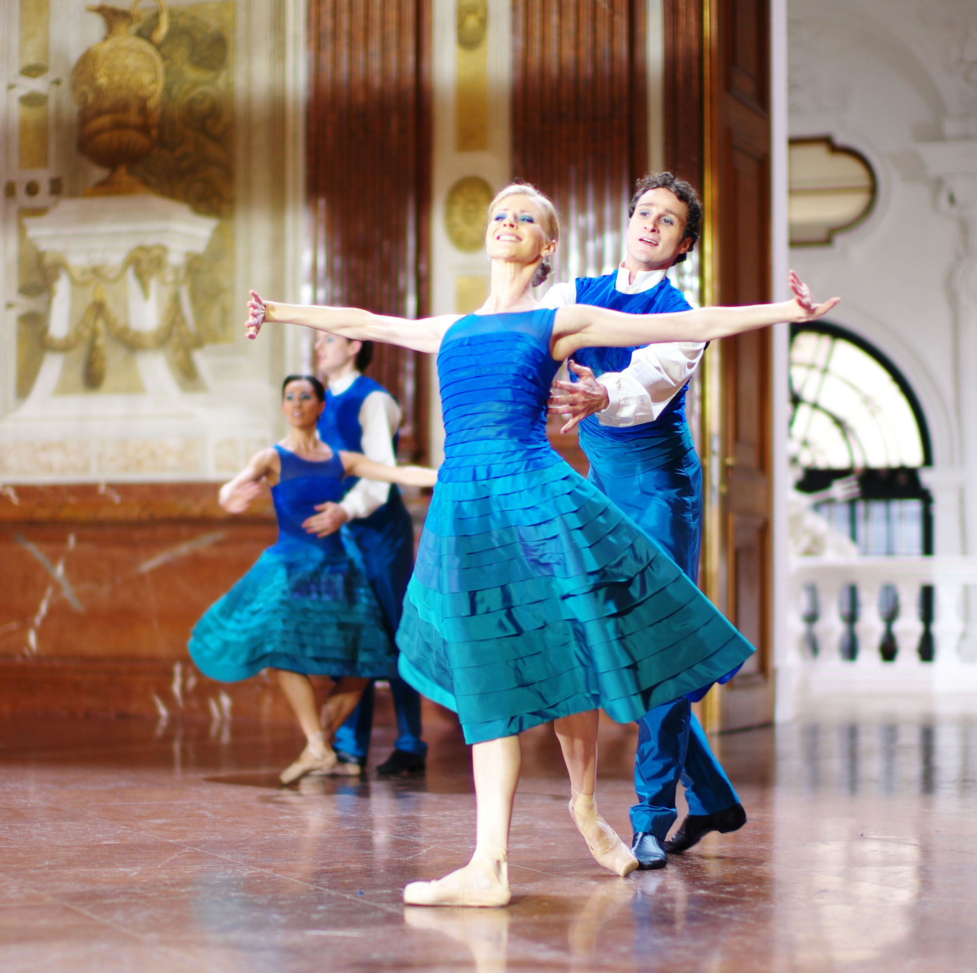 Vienna state ballet dancer Olga Esina and Roman Lazik perform during the general rehearsal for the New Year´s Concert the ballet "Donauwalzer" in the Belvedere on January 1, 2012 in Vienna.